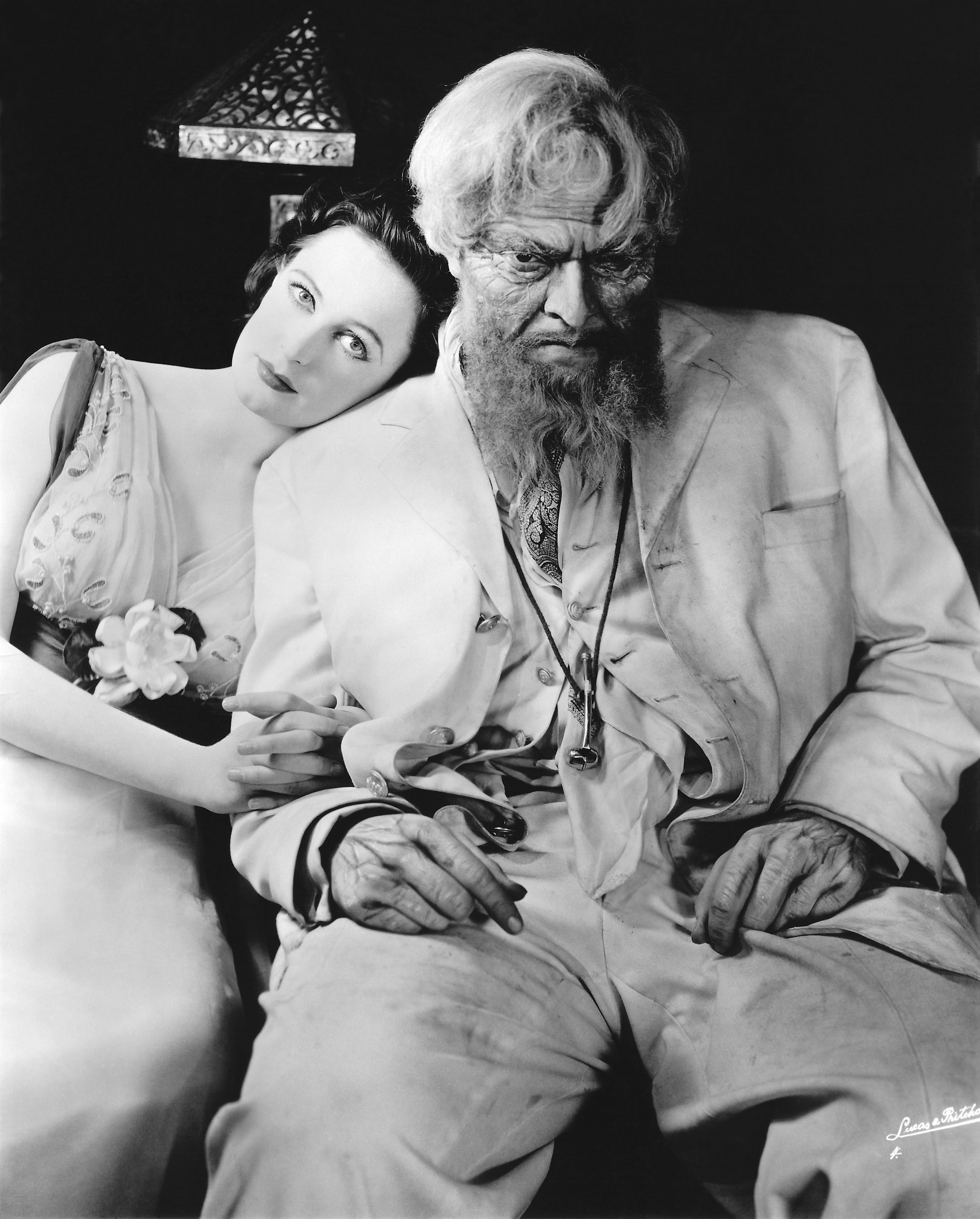 Promotional photograph of the Mercury Theatre production of George Bernard Shaw's Heartbreak House, directed by Orson Welles. Production ran April 29–June 11, 1938, at the Mercury Theatre. Subjects of the photograph are Geraldine Fitzgerald as Ellie Dunn and Orson Welles as Captain Shotover.